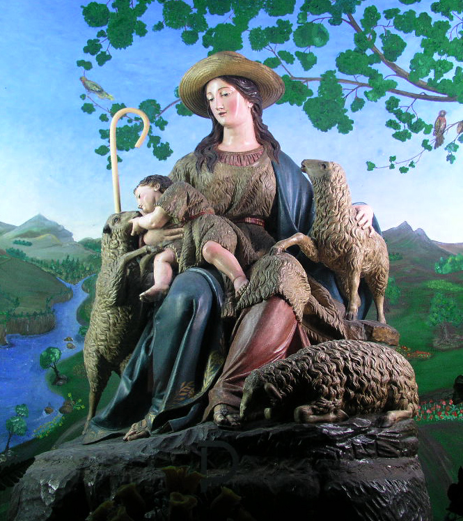 Divina Pastora, Seminario Serafico de Missiones Padres Capuchinos, El Pardo, Madrid. Mariano Bellver (1817-1876). The photo was taken by Håkan Svensson (Xauxa) the 22nd of December 2003.